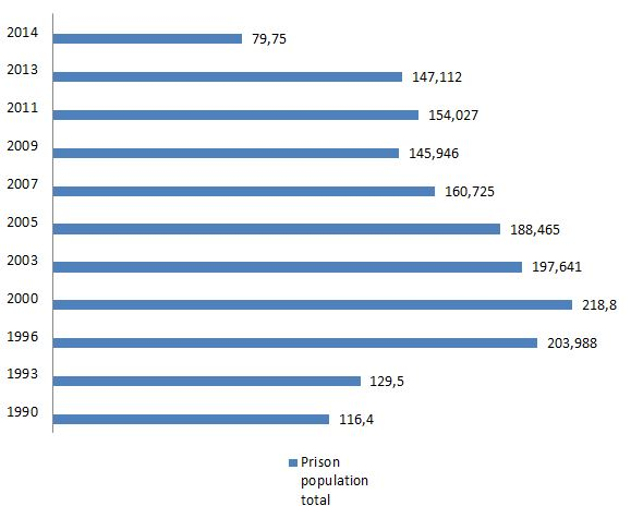 Ukraine prison population total 1990 - 2014 according to The decline in 2014 is due to the exclusion of Crimea